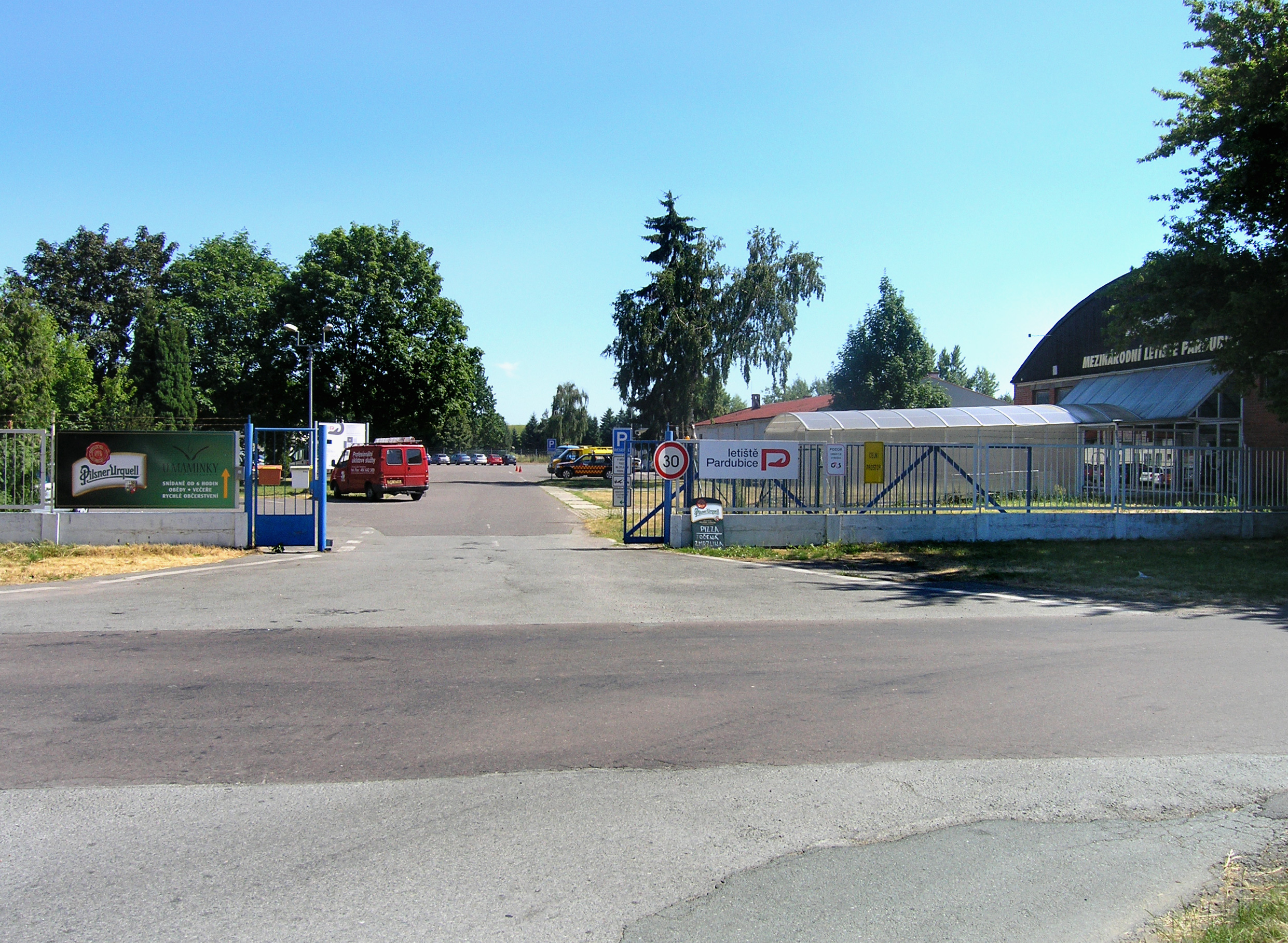 Entry of Pardubice airport in Pardubice, Czech Republic